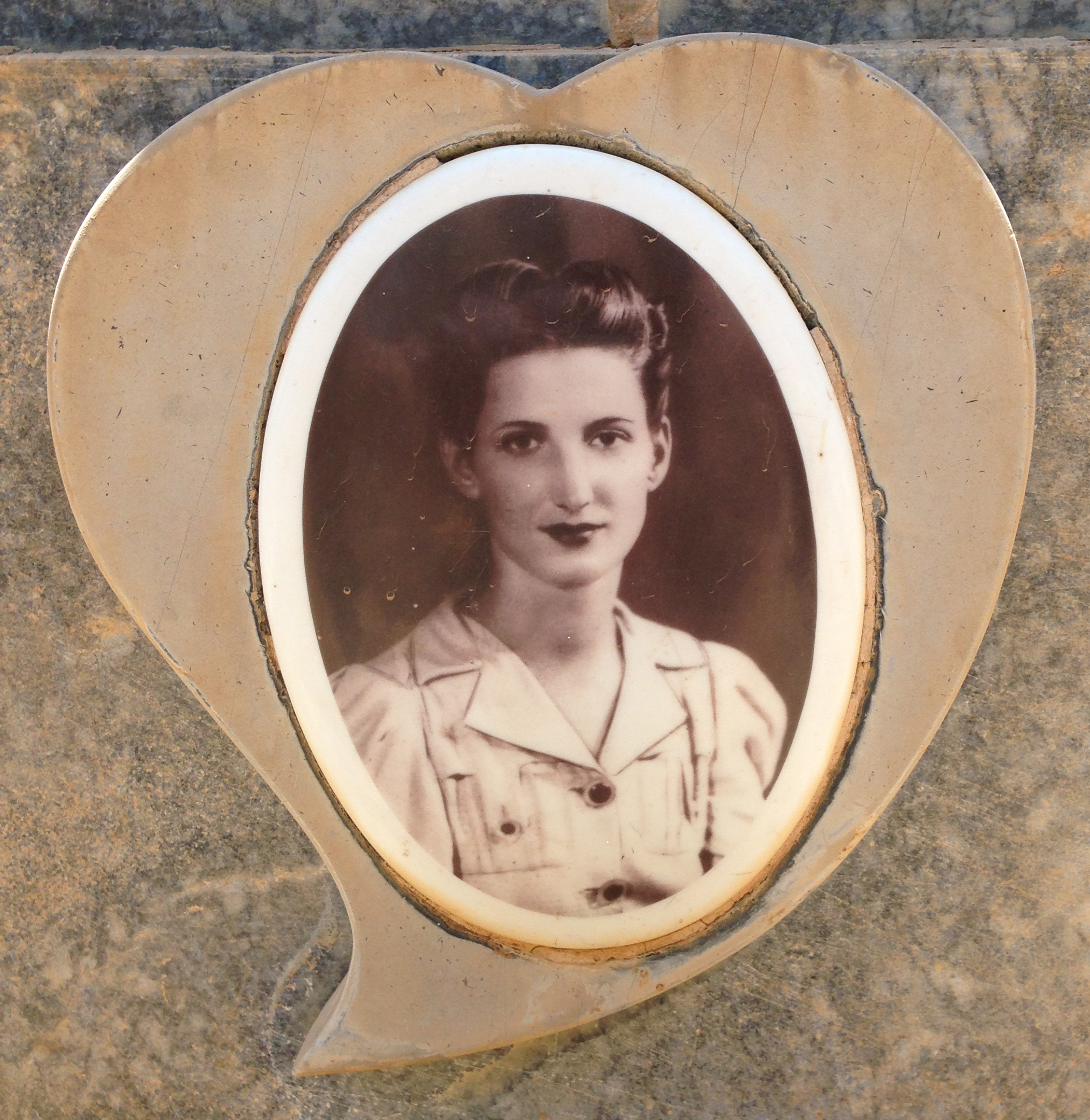 Grave photo of ΣΟUΓΑ ΡΕΒΙΝΘΗ, who died on 23rd July 1945 aged 22, in the Greek section of the Christian cemetery in Khartoum, Sudan